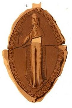 Margaret of Bourbon (1211–1256)